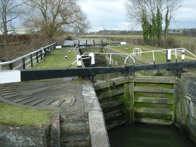 Whilton Locks-Grand Union Canal Showing the first lock to the north of the road to Whilton village.The canal is drained past this lock at the present time.